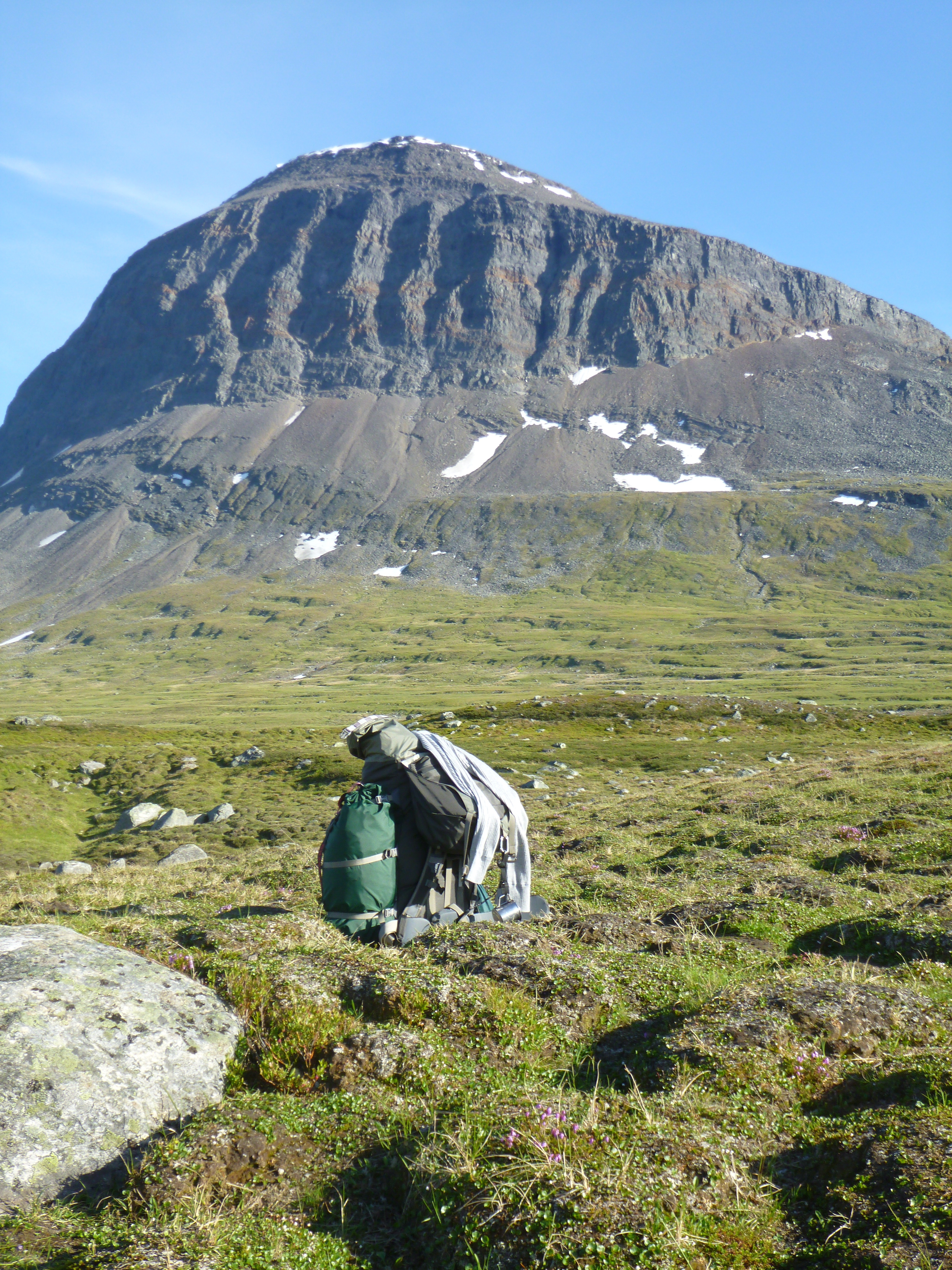 viwe to mountain Nijak